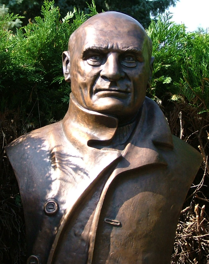 Bust of Ernő Buda in the Museum of the Hungarian Petroleum Industry. Sculptor: Béla Pataky